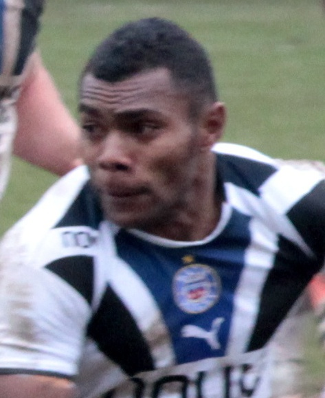 Harlequin vs Bath 2013